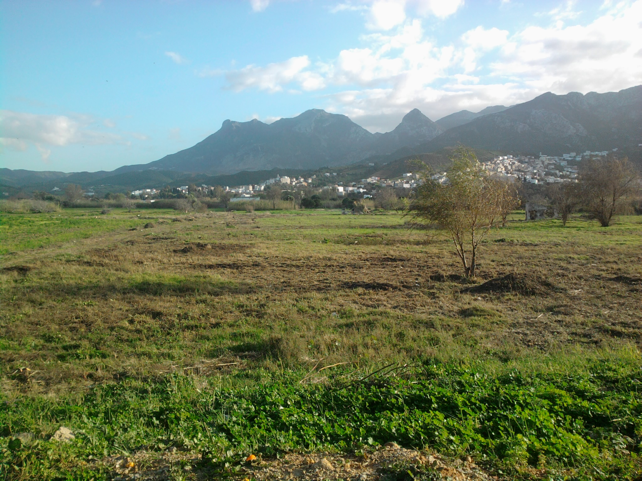 Tetouan Morocco